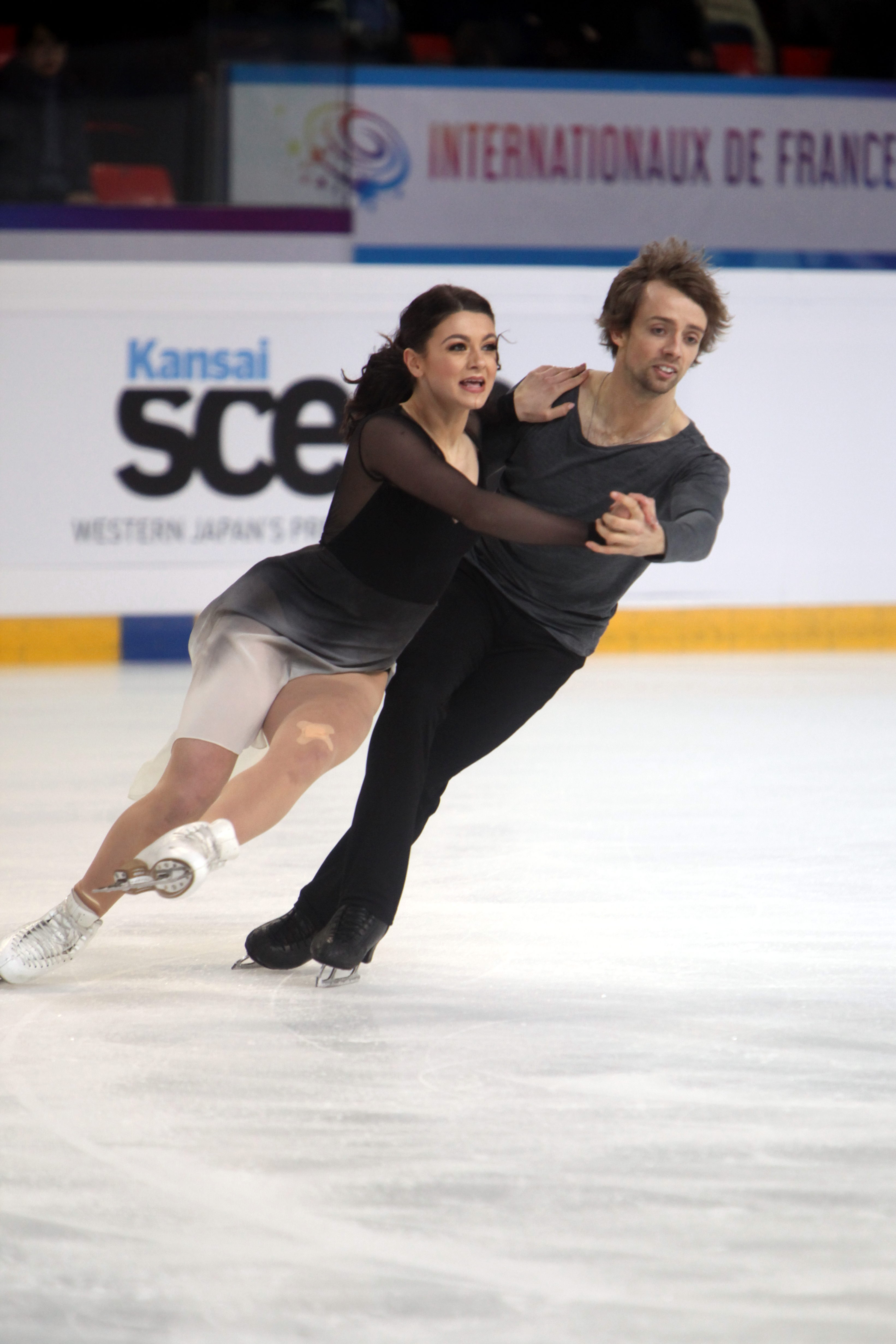 Kaitlin Hawayek and Jean-Luc Baker during the Free Dance at the Internationaux de France de Patinage 2018.